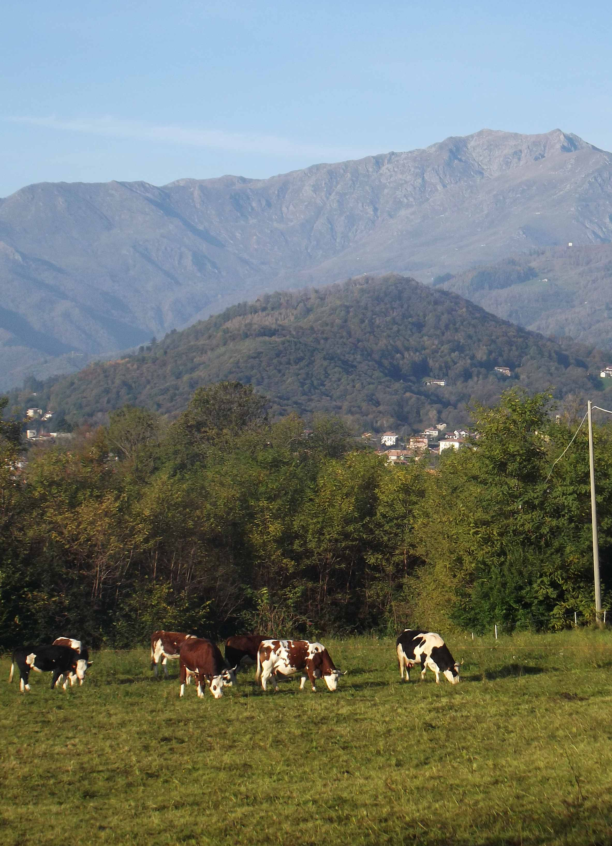 Bric Burcina from Vaglio di Biella, in the background the Mombarone (Alpi Biellesi, Italy)